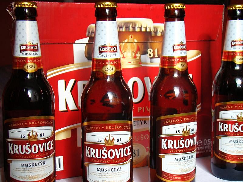 Beers of the Czech Republic